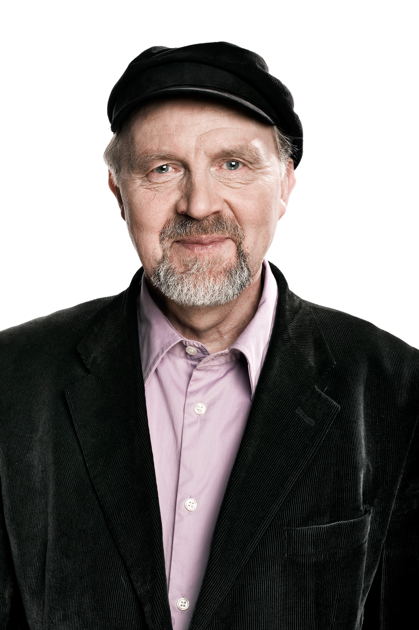 Jón Bjarnason, MP of the Icleandic Left-Green movement